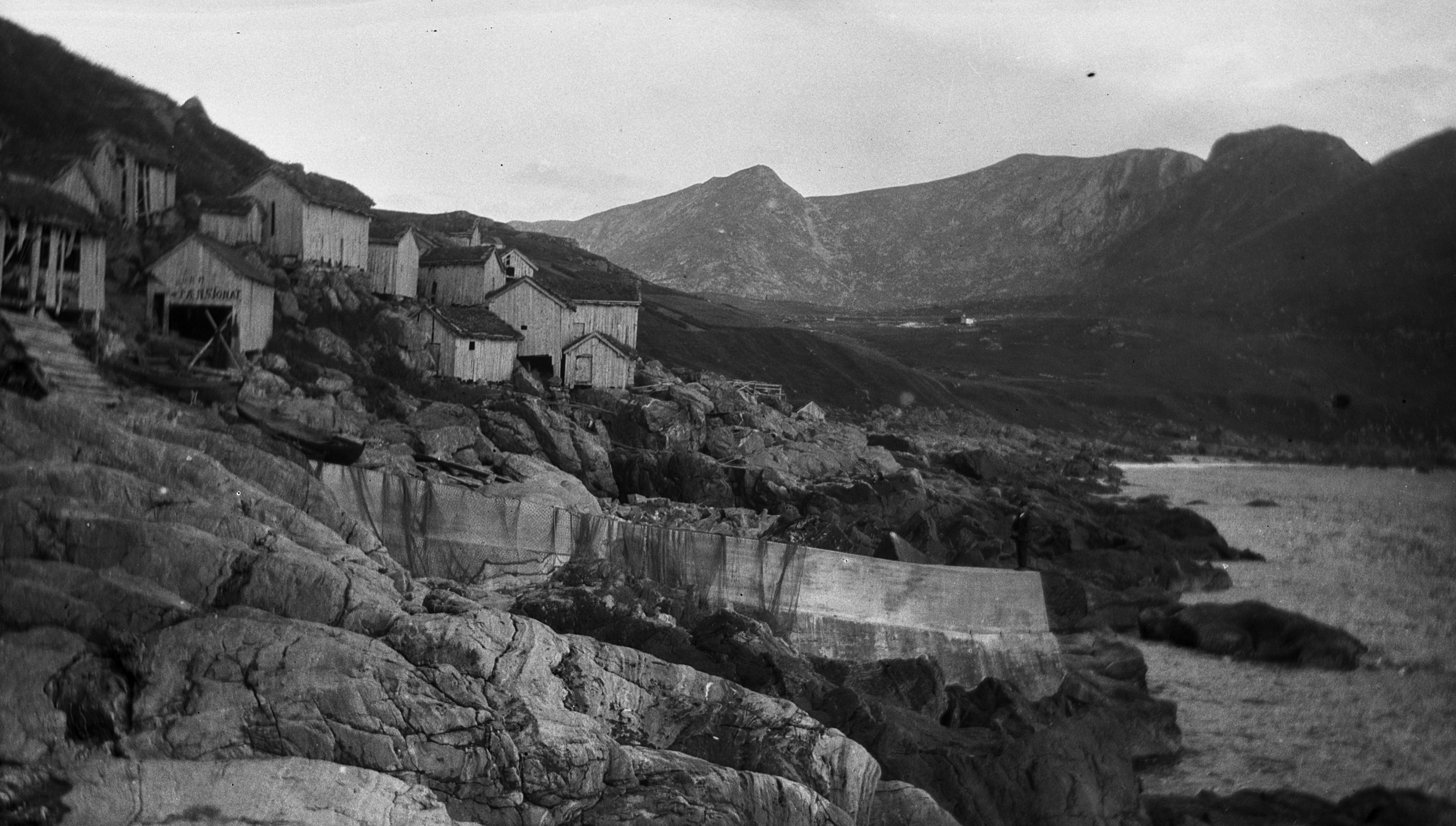 Identifier: SFFf-100585.271102 Photographer: Kristian Berge. Medium: Cellulose nitrate negative. Extent: 7 x 12 cm. Original caption (from Berge's negative album): Ved Kvalheim sjøstrand, 1914.